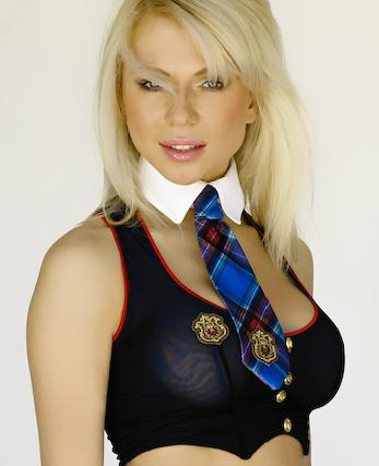 Image of YouTube-based internet celebrity Marina Orlova